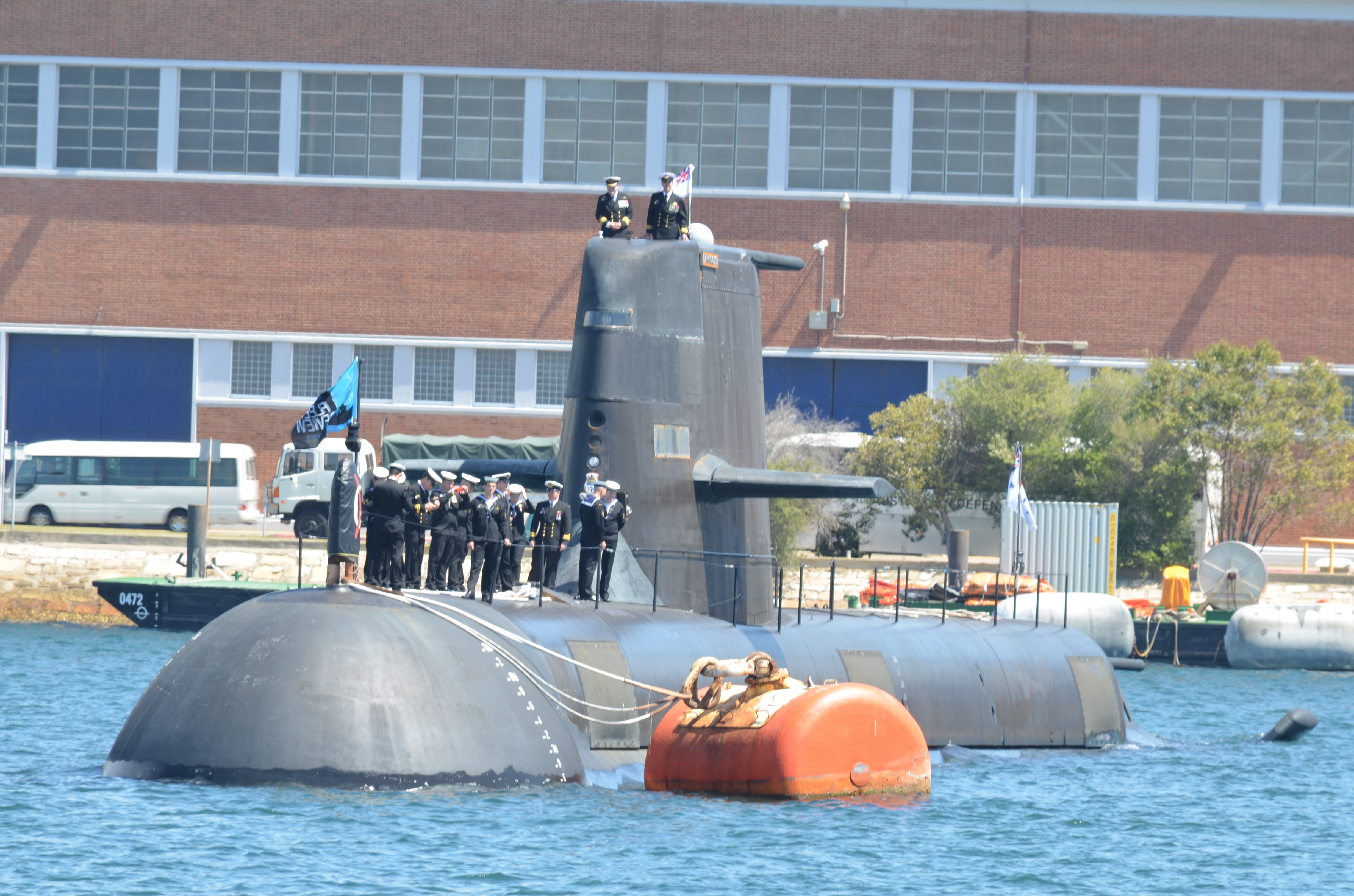 Photographs taken during day 3 of the Royal Australian Navy International Fleet Review 2013. The Australian submarine Farncomb moored in Sydney Harbour